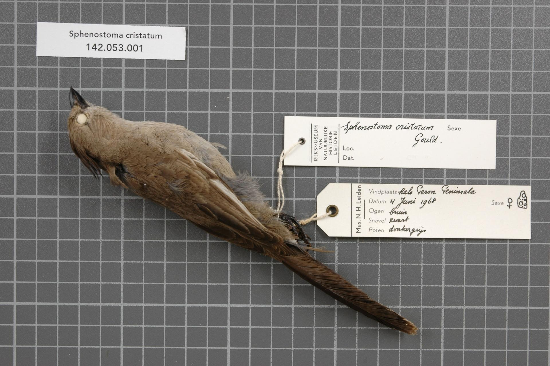 Sphenostoma cristatum Gould, 1838